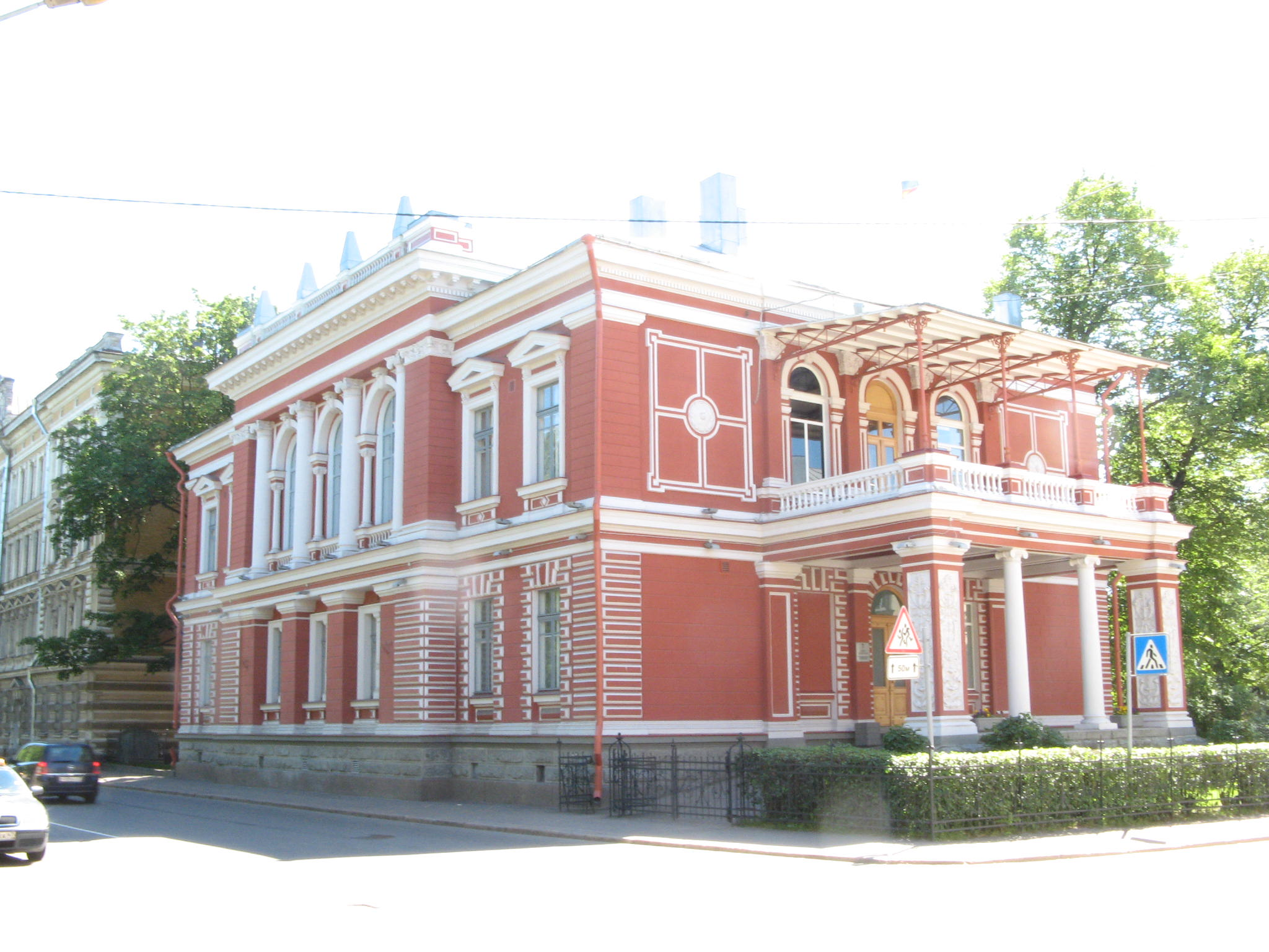 Vyborg city hall (Russia). Designed by Finnish architect Johan Jacob Ahrenberg 1891; residence of the Governor of the Viipuri Province, Grand Duchy of Finland.